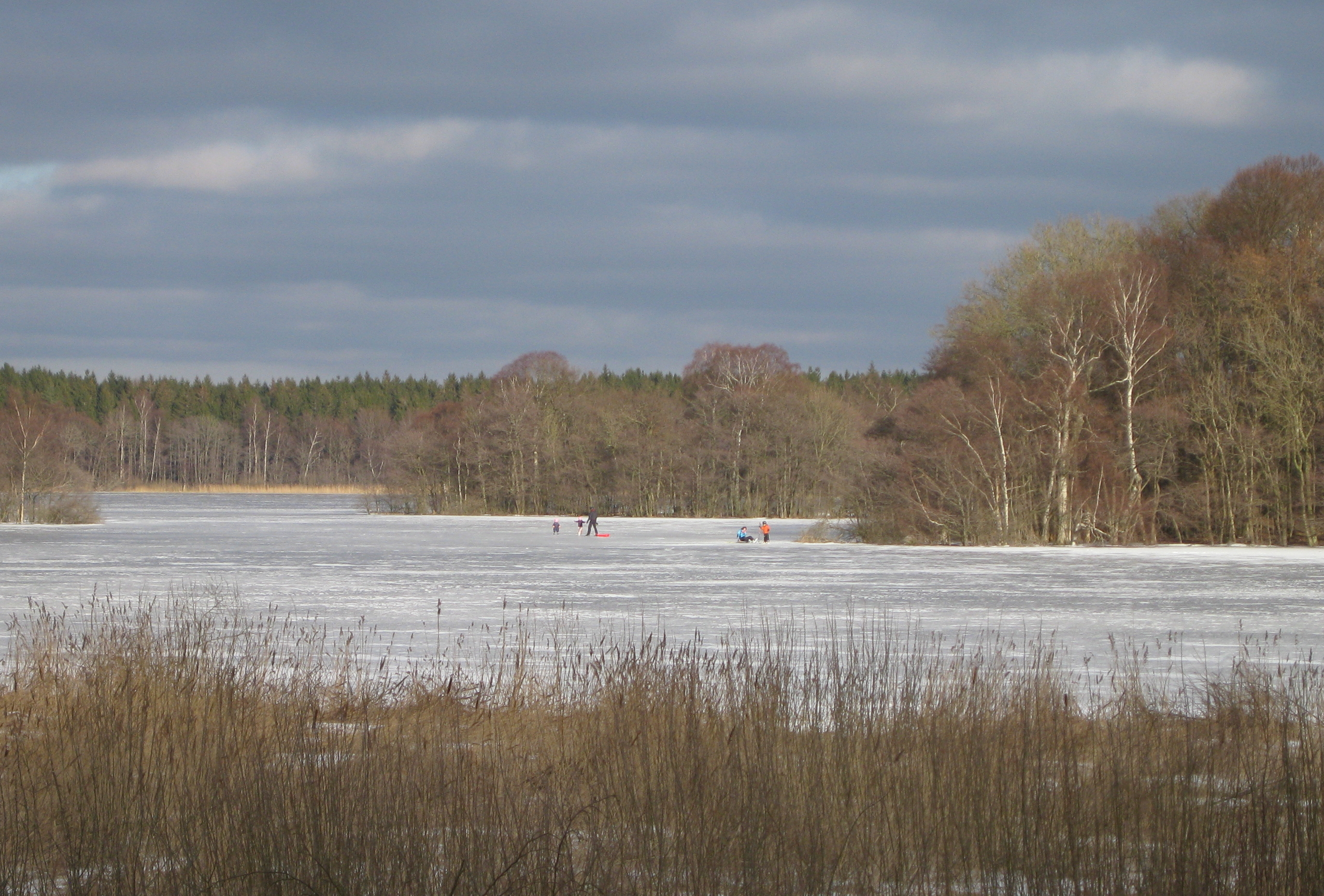 Fjällfotasjön in Skåne, Sweden. The lake is frozen with skaters.